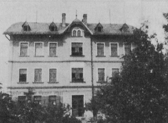 Historic photography from Munich-Aubing, Germany. "The school house built in 1893"